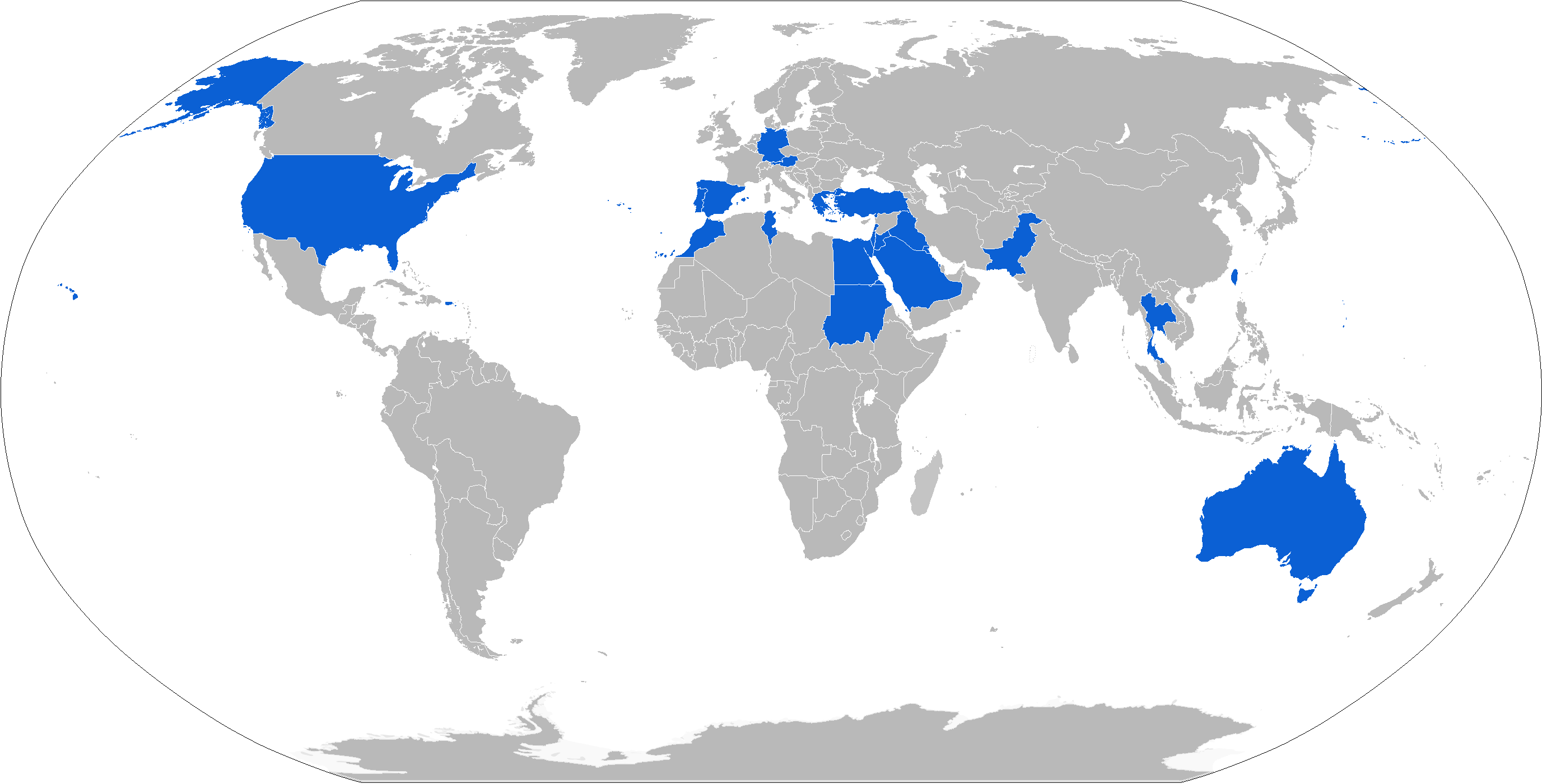 Map of M88 operators in blue